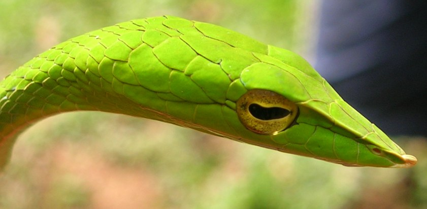 Head of Ahaetulla nasuta Photograph by L. Shyamal, Wynaad 2006